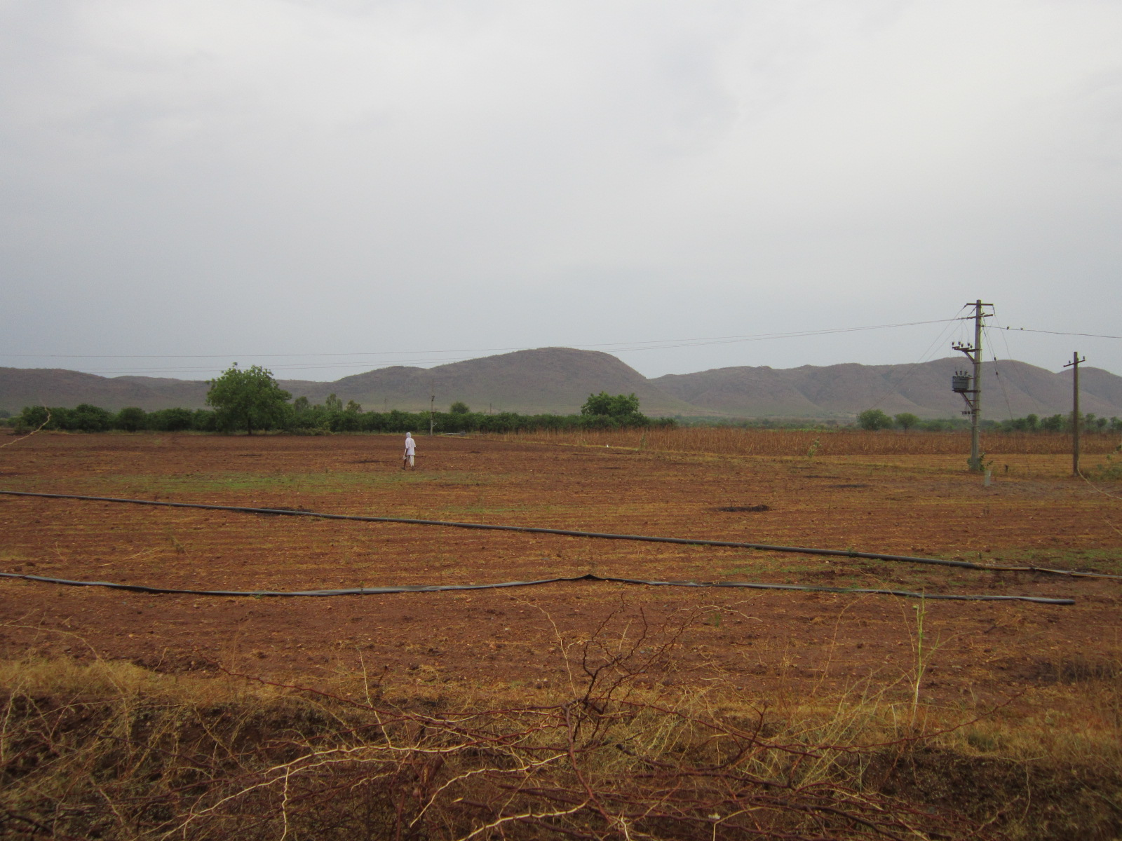 Agriculture lands of Lellapalli vilage-Tripurantakam mandakam,Andhra pradesh,India.